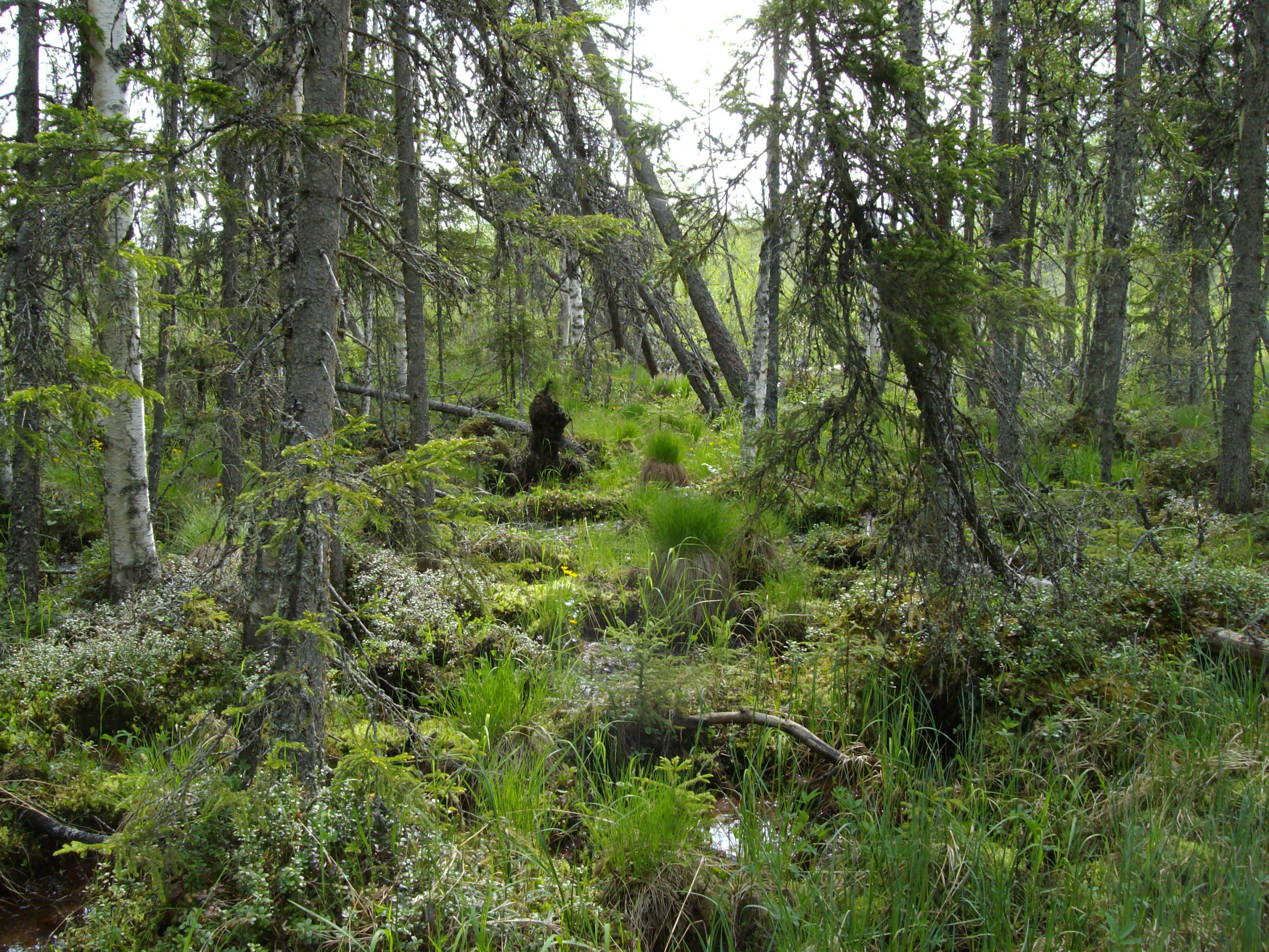 Rustic bunting habitat in Hedmark, Norway (affected by both beaverdam construction and ground water)